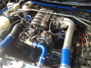 Eunos Cosmo, engine bay 3-Disk-Rotary engine, 20B